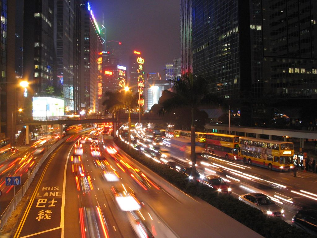 Night Scene of Gloucester Road, Wanchai